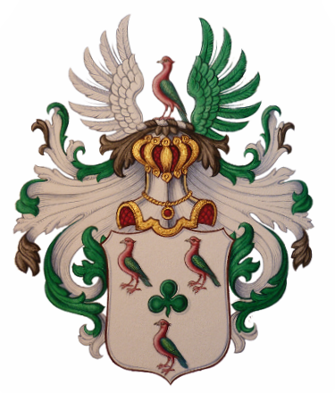 van Vloten family coat of arms with crest